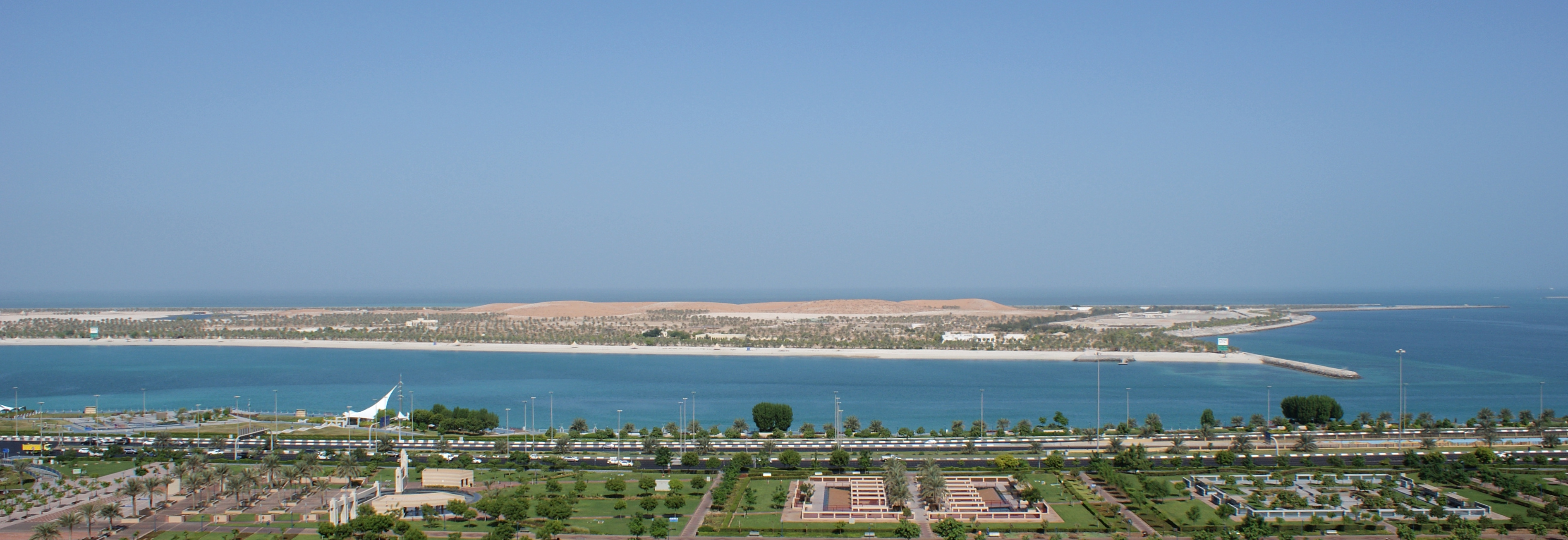 Artificial island of Al Lulu with the corniche of Abu Dhabi in the front.